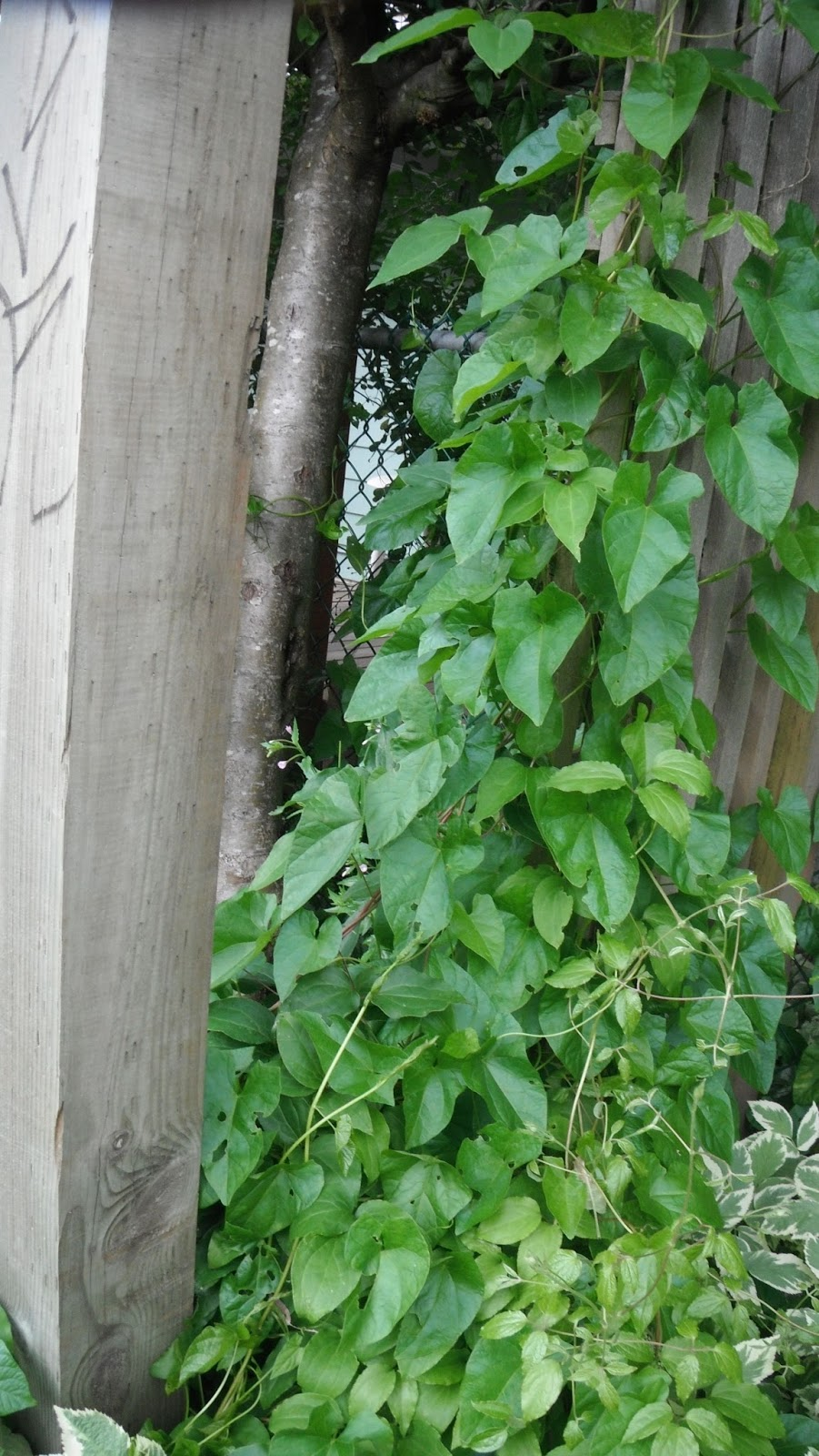 bindweed climbing on trellis